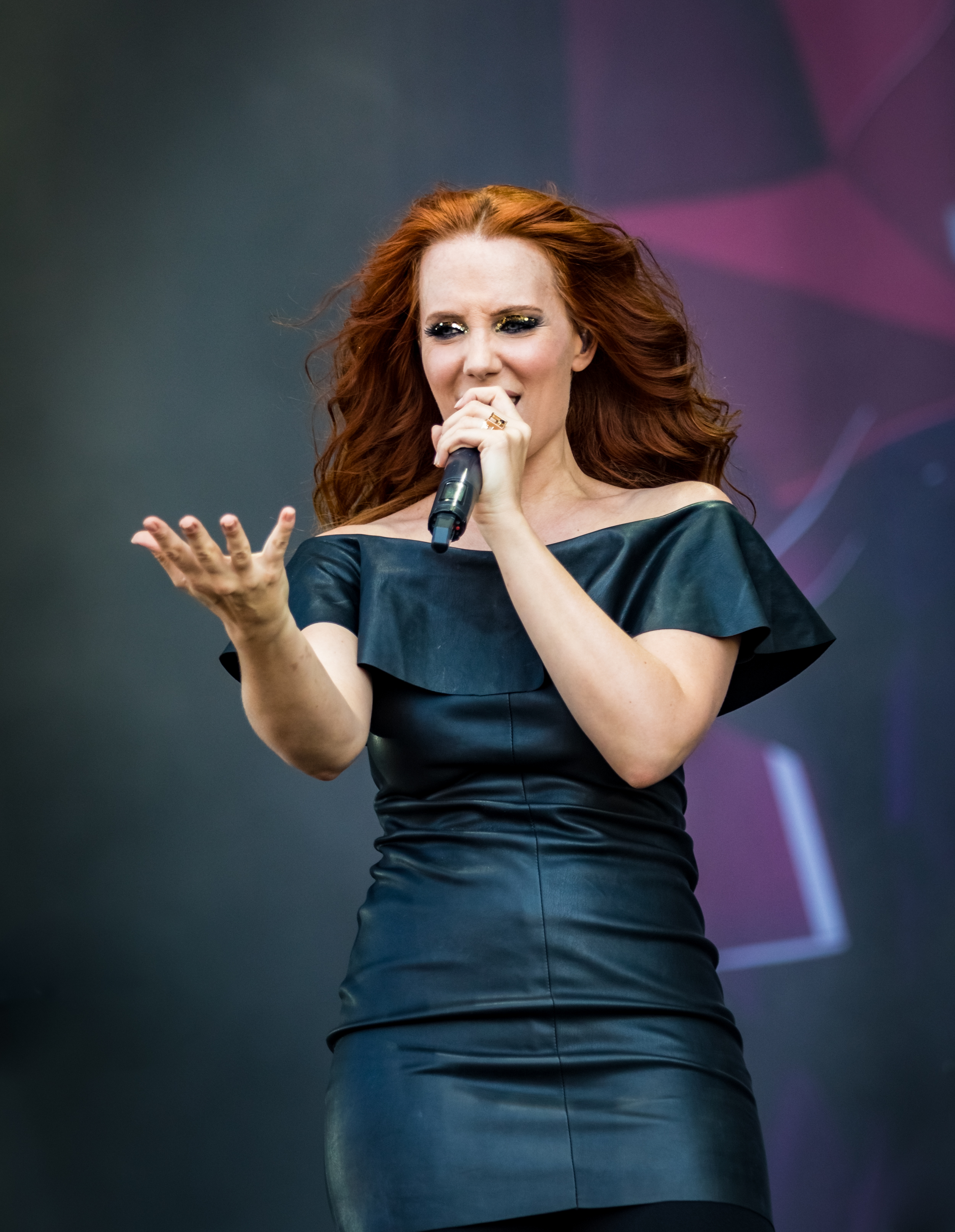 Epica - Wacken Open Air 2018